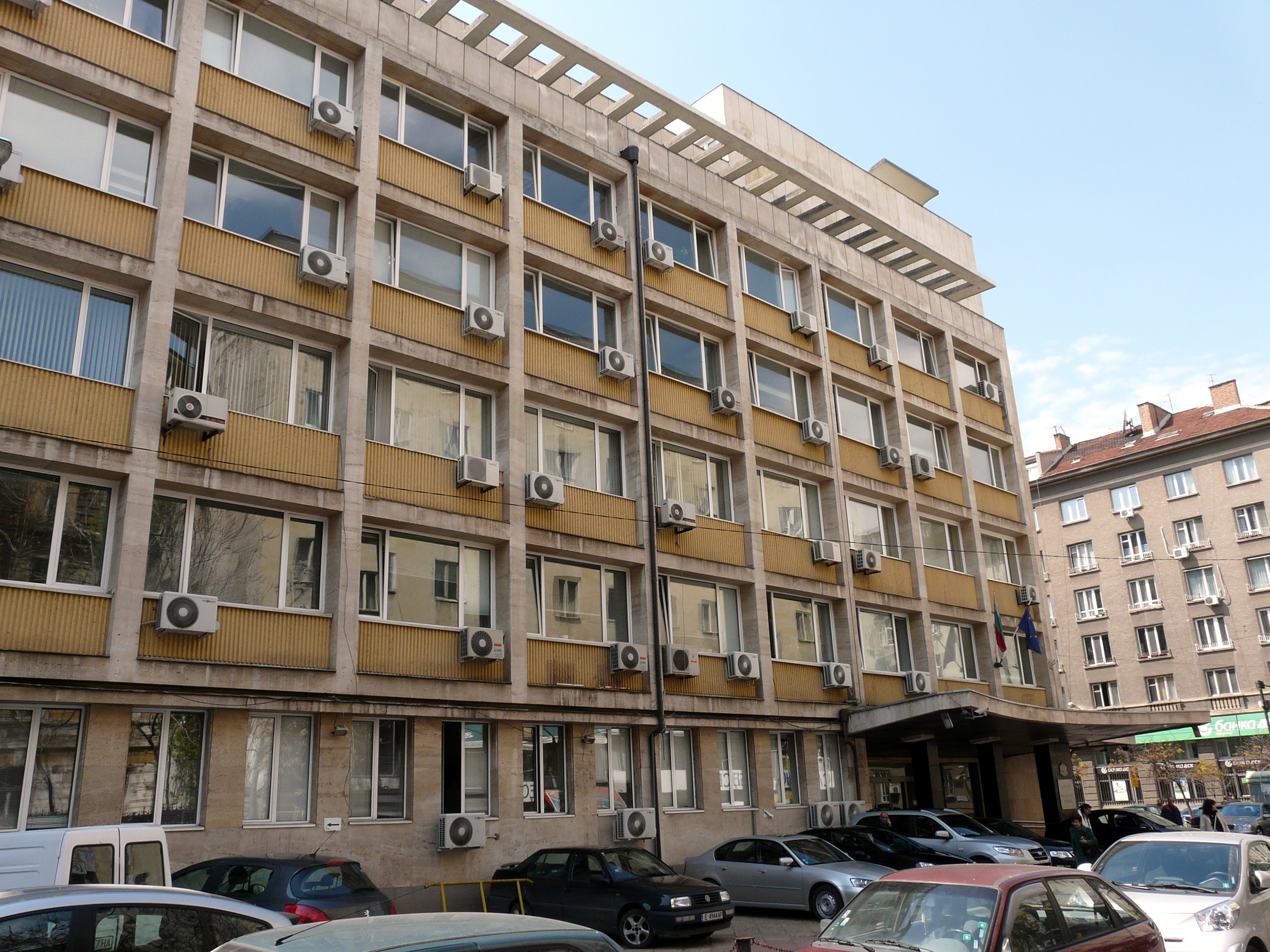 Ministry of Economics of Bulgaria